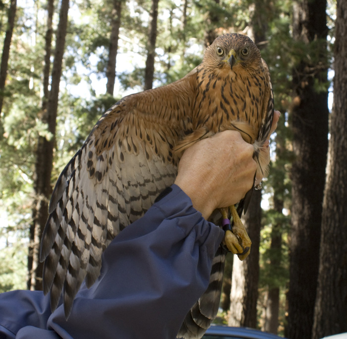 Black Sparrowhawk, juvenile.